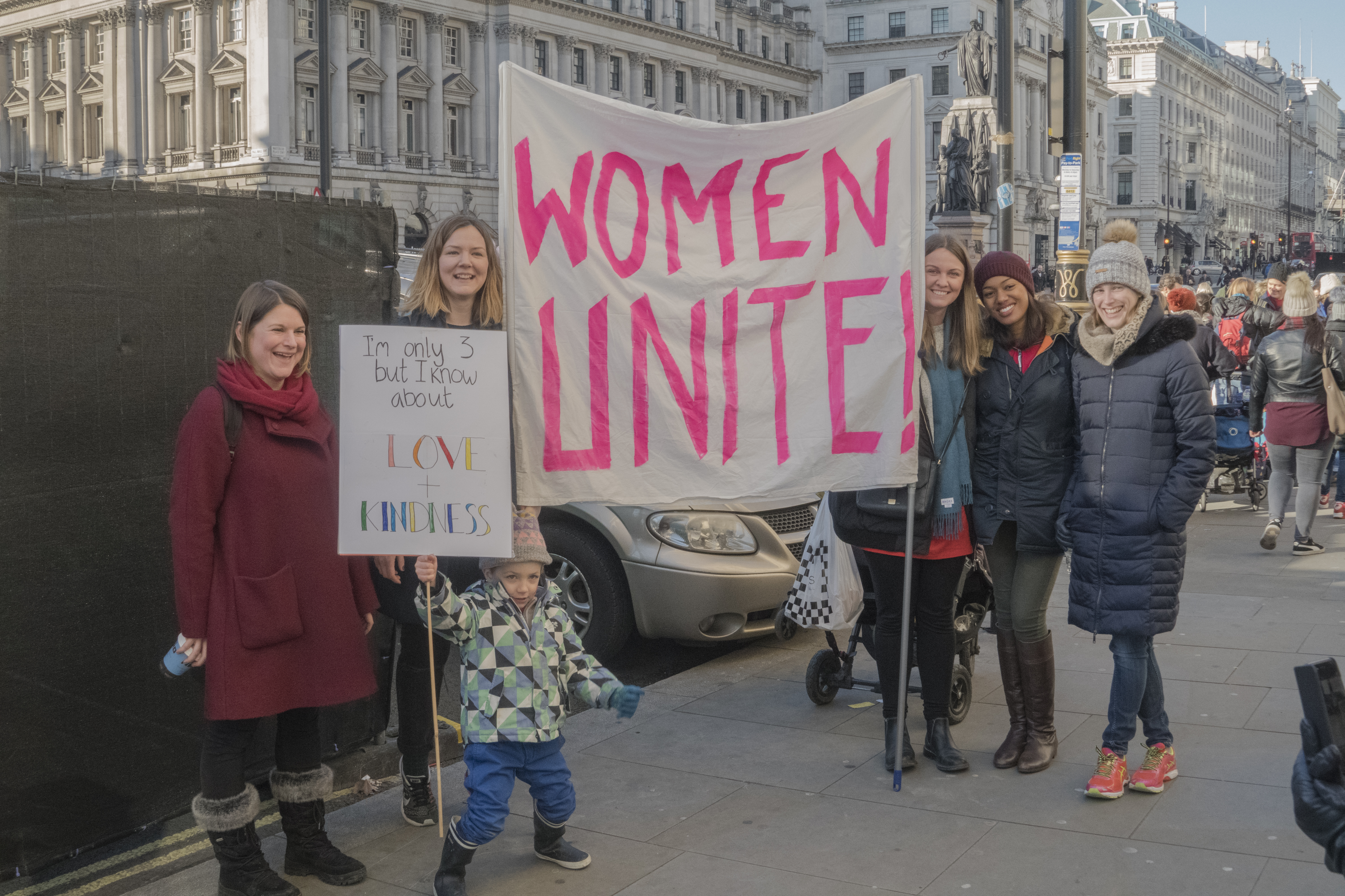 Demonstrators taking part in the Women's March on London